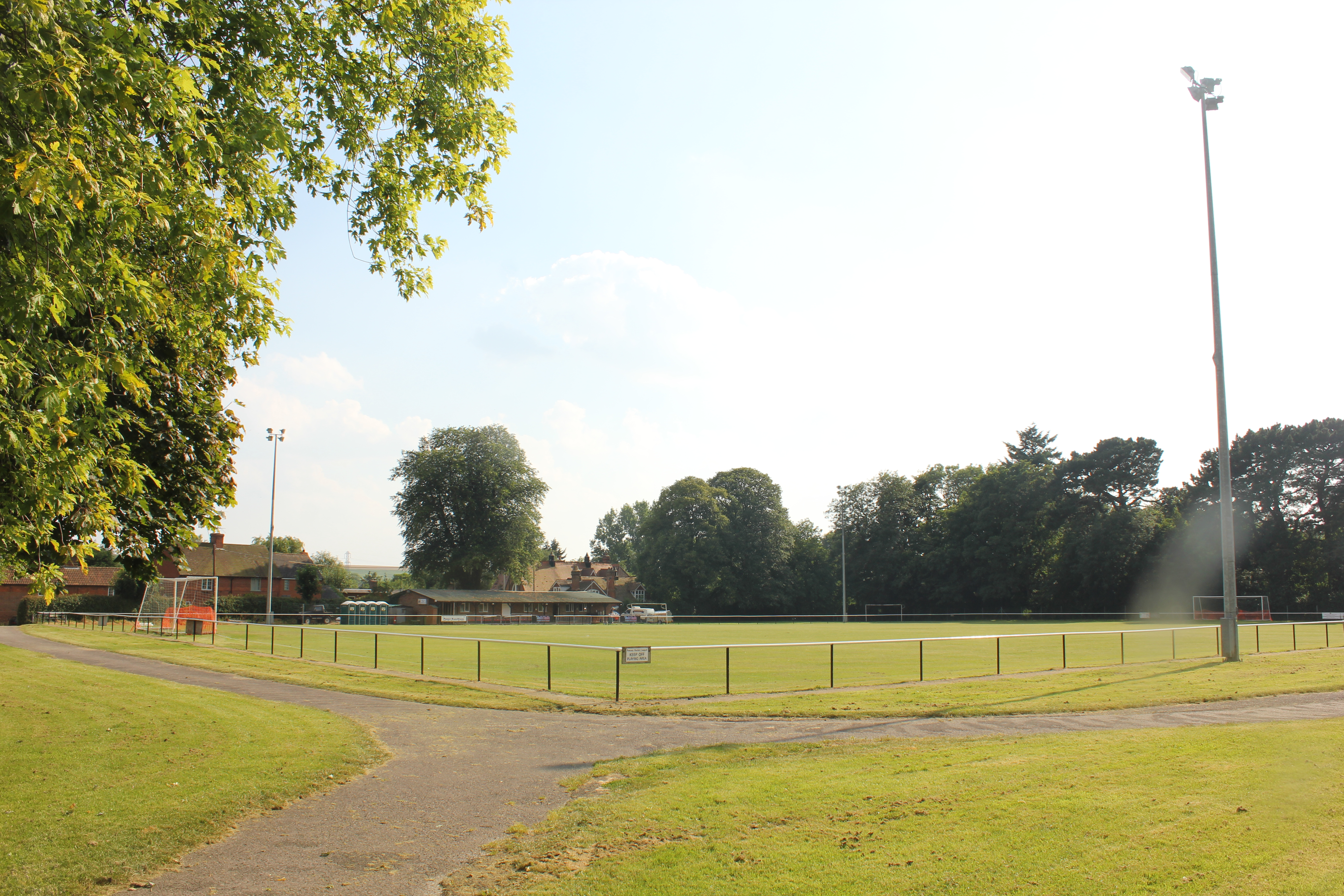 Recreation Ground, Pewsey Vale